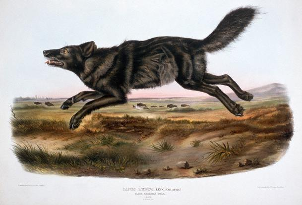 An illustration of a black wolf from The Viviparous Quadrupeds of North America by John James Audubon and John Bachman, originally published in three volumes (1845-1848)